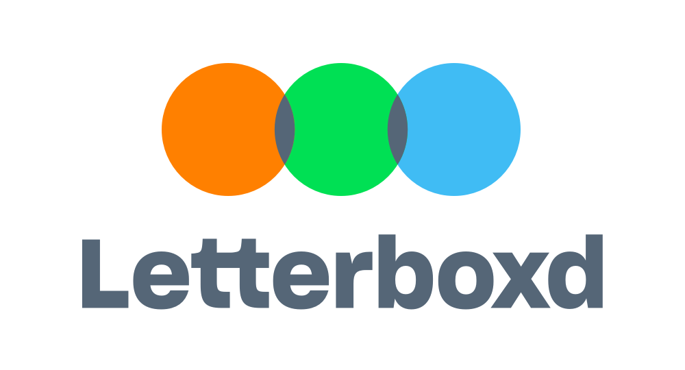 Vertical version of Letterboxd’s logo for use on white/light backgrounds.